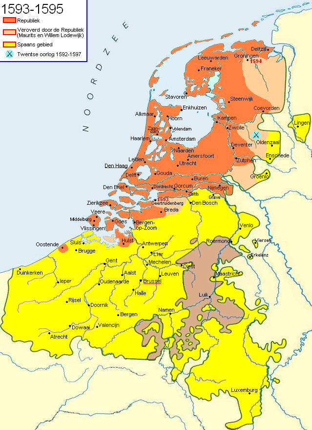 Situation between 1593 and 1595, during the Eighty Years War between the Netherlands and Spain, showing changes in territory and important battles. Legend: The United Provinces is marked Red, the Spanish Netherlands are marked Yellow, the Prince-Bishopric of Liege is marked Gray, and territory conquered by the United Provinces from Spain is shown in soft Red.